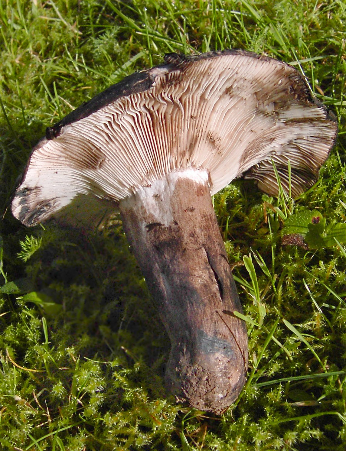 Russula densifolia